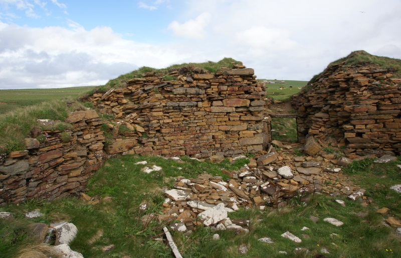 Broch of Borwick, Mainland, Orkney, Scotland. Interior seen from the west.